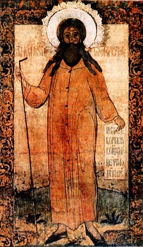 Saint Ioann of Rostov (Johannes von Rostov)